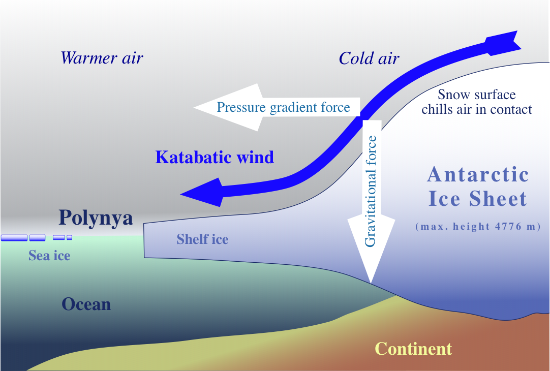 Sketch about the two forces, pressure gradient and gravitation force, producing Katabatic Wind at the margin of an ice sheet or glacier. Offshore katabatic winds may form coastal polynyas.